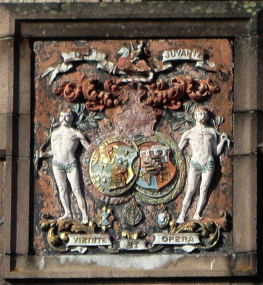 Fife Arms Hotel, Braemar: Arms of Alexander Duff, 1st Duke of Fife and his wife Princess Louise, Princess Royal